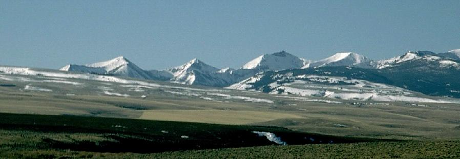 The Jarbidge Range in Nevada, looking west from Salmon Falls Creek and O'Neil Basin. (USFS)